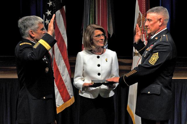 Chief of Staff of the Army Gen. George W. Casey Jr. swears in Sgt. Maj. Raymond F. Chandler III as the 14th sergeant major of the Army during a ceremony, March 1, at the Pentagon. Chandler's wife, Jeanne, holds the Bible during the ceremony.